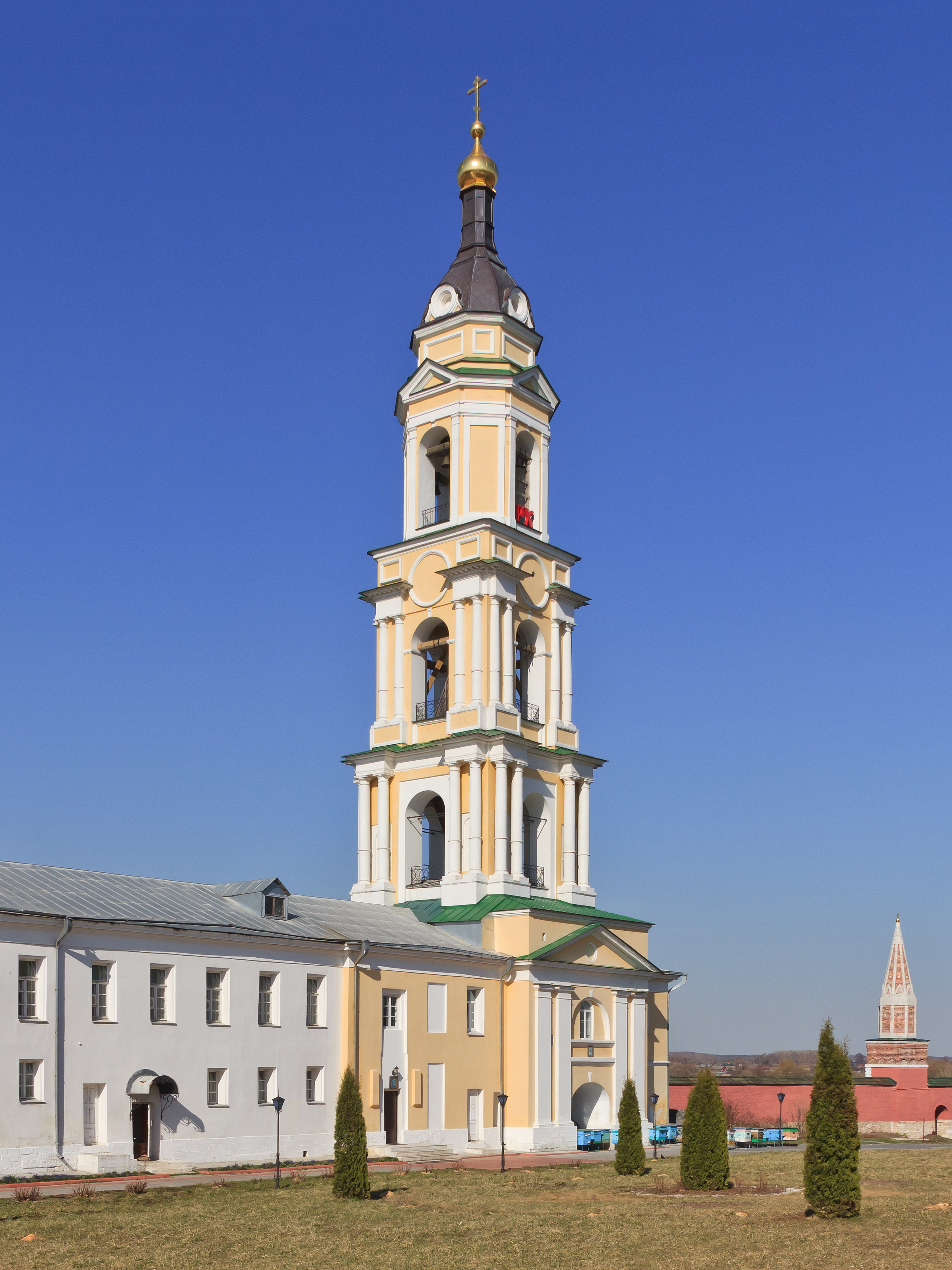 The bell tower of Staro-Golutvin Monastery in Kolomna, Moscow Oblast, Russia.